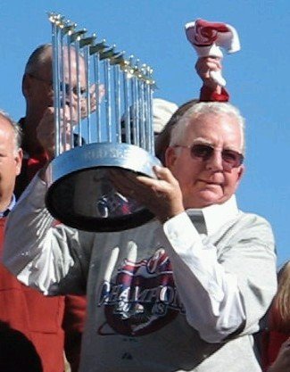 Giles at the Phillies World Series parade in 2008